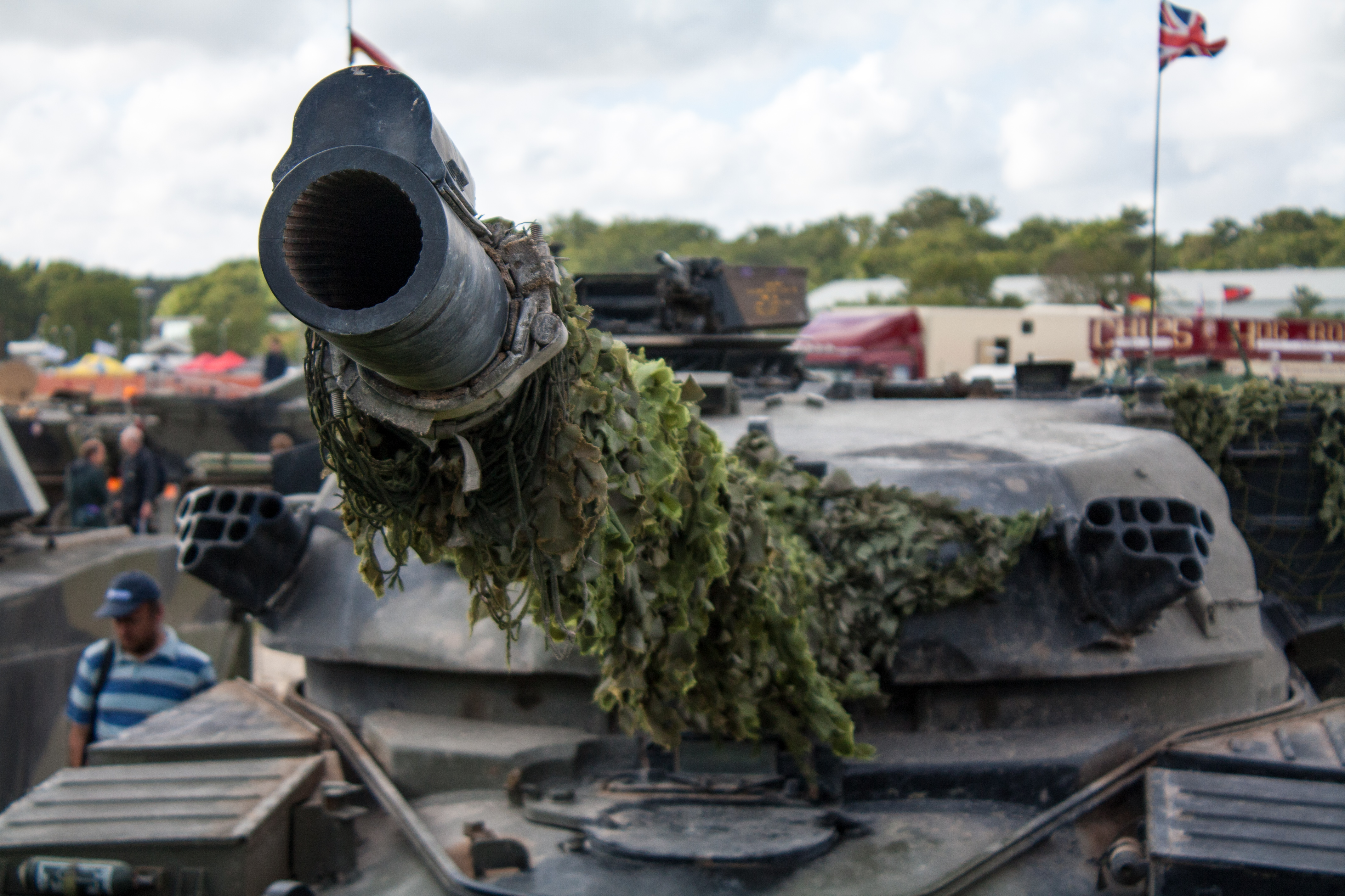 Chieftain Gun Barrel